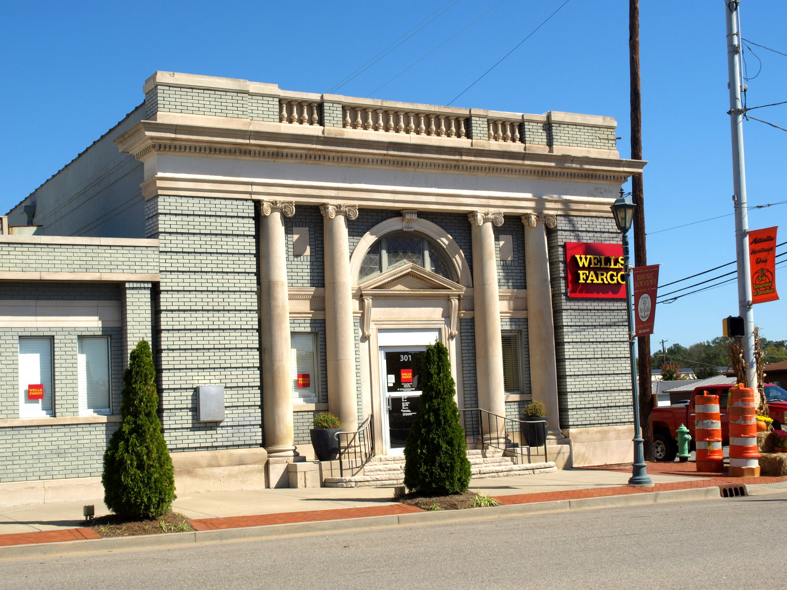 The Bank of Attalla building in Attalla, Alabama, part of the Attalla Downtown Historic District